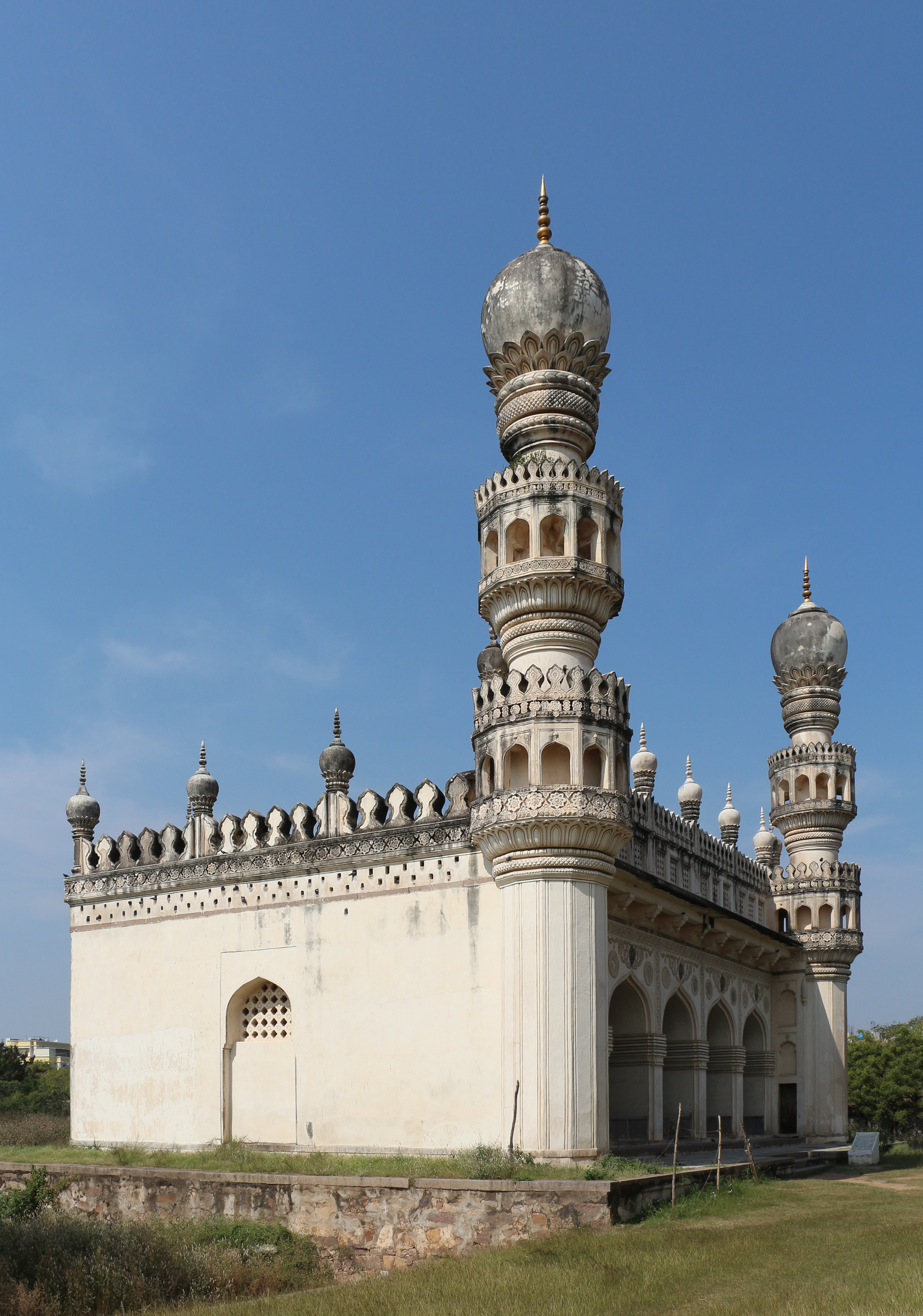 Hayat Bakshi Mosque, Qutb Shahi Tombs Complex, Hyderabad, India